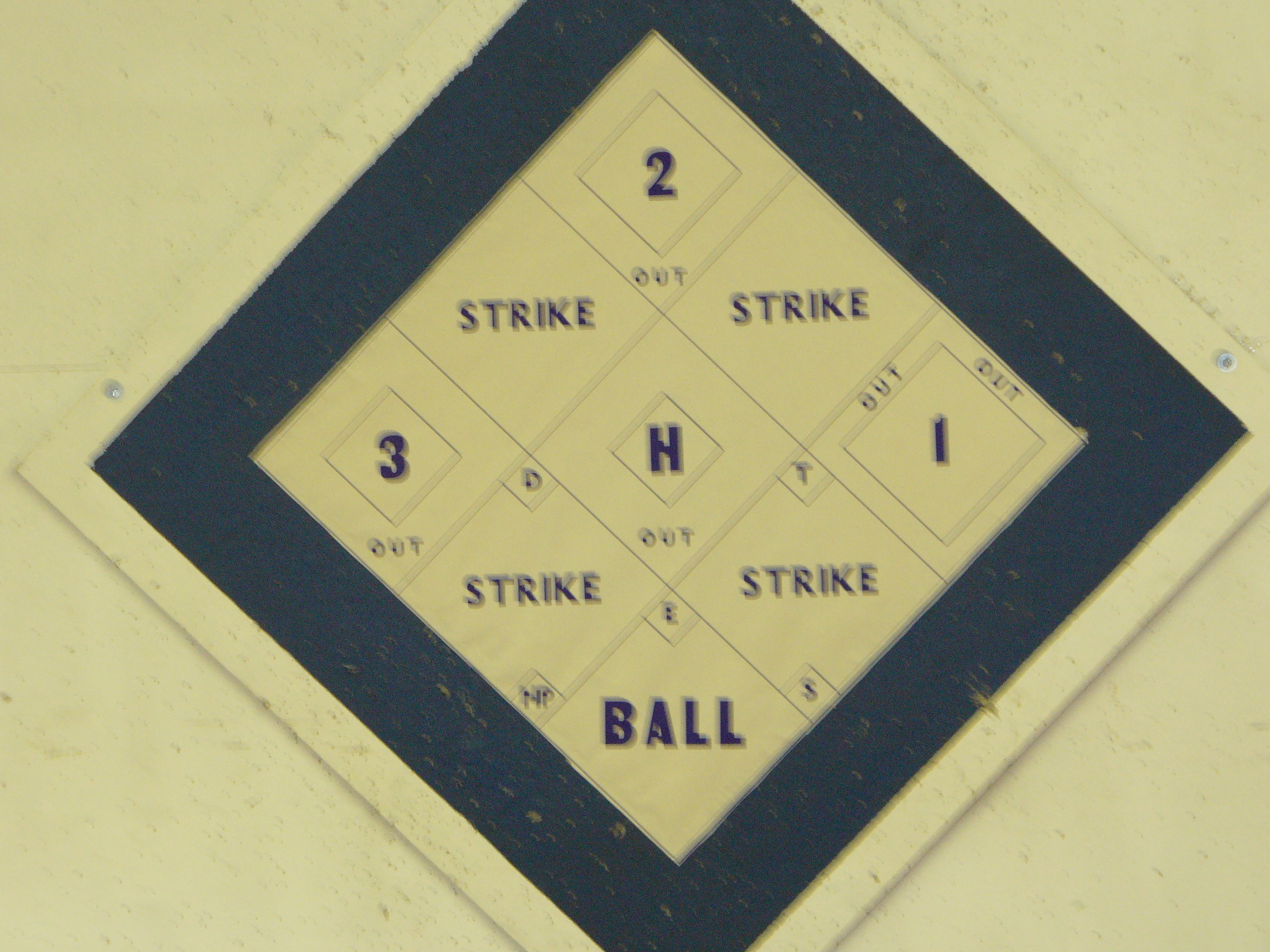 Standard dartboard for church dartball leagues in Northwest Ohio.